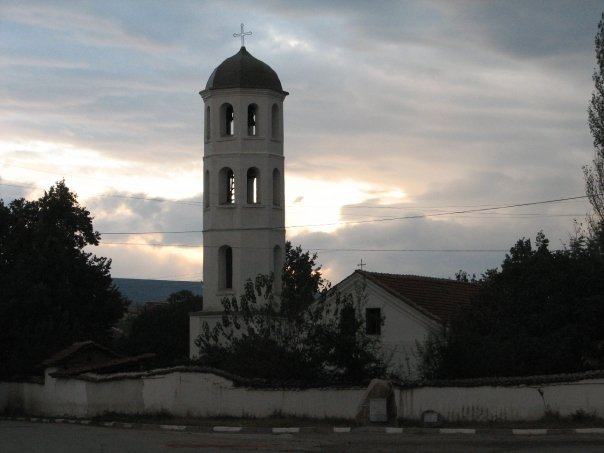 Kalugerovo's church The Nativity of Mary